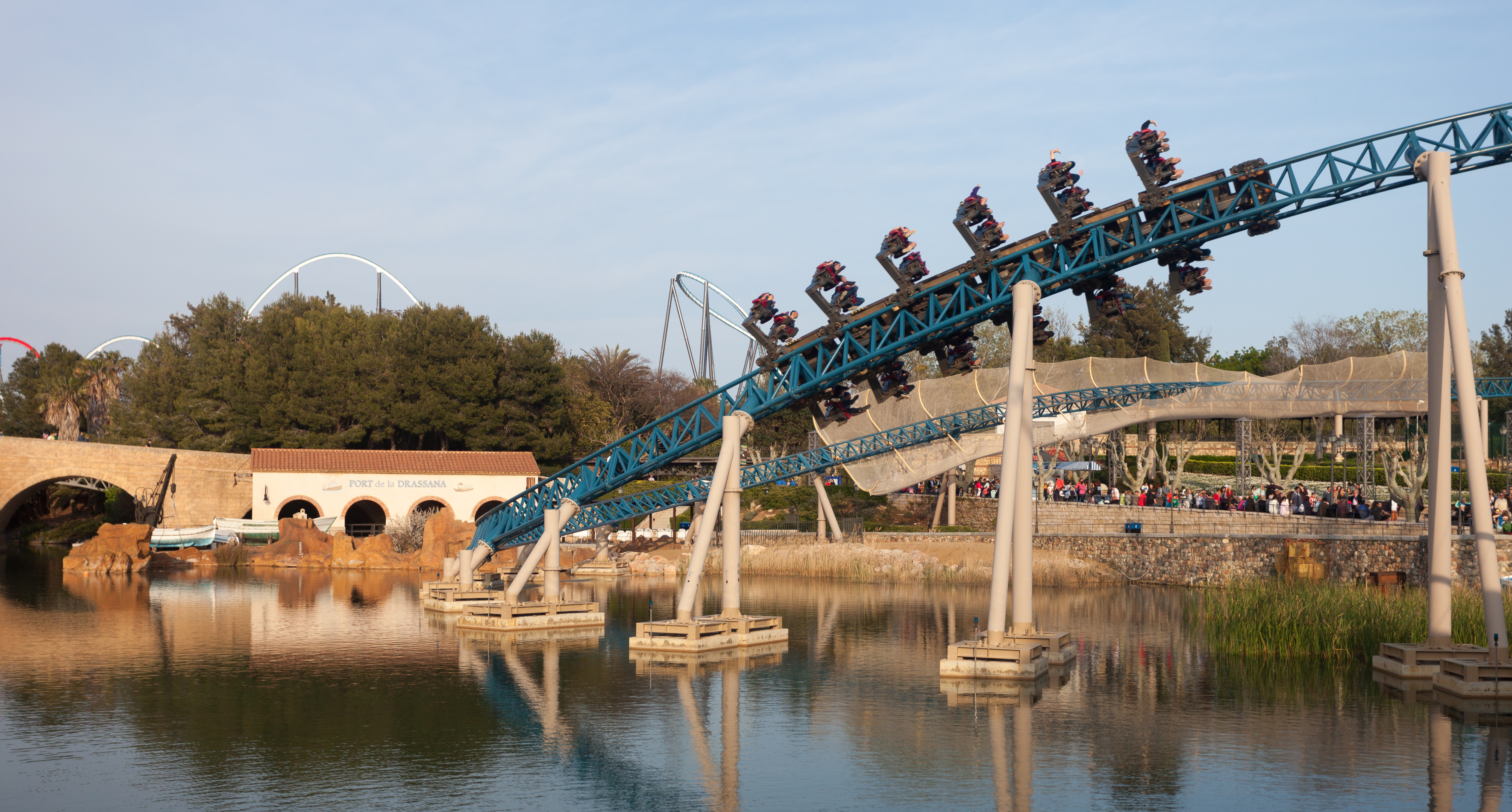 PortAventura. Tarragona, Catalonia.